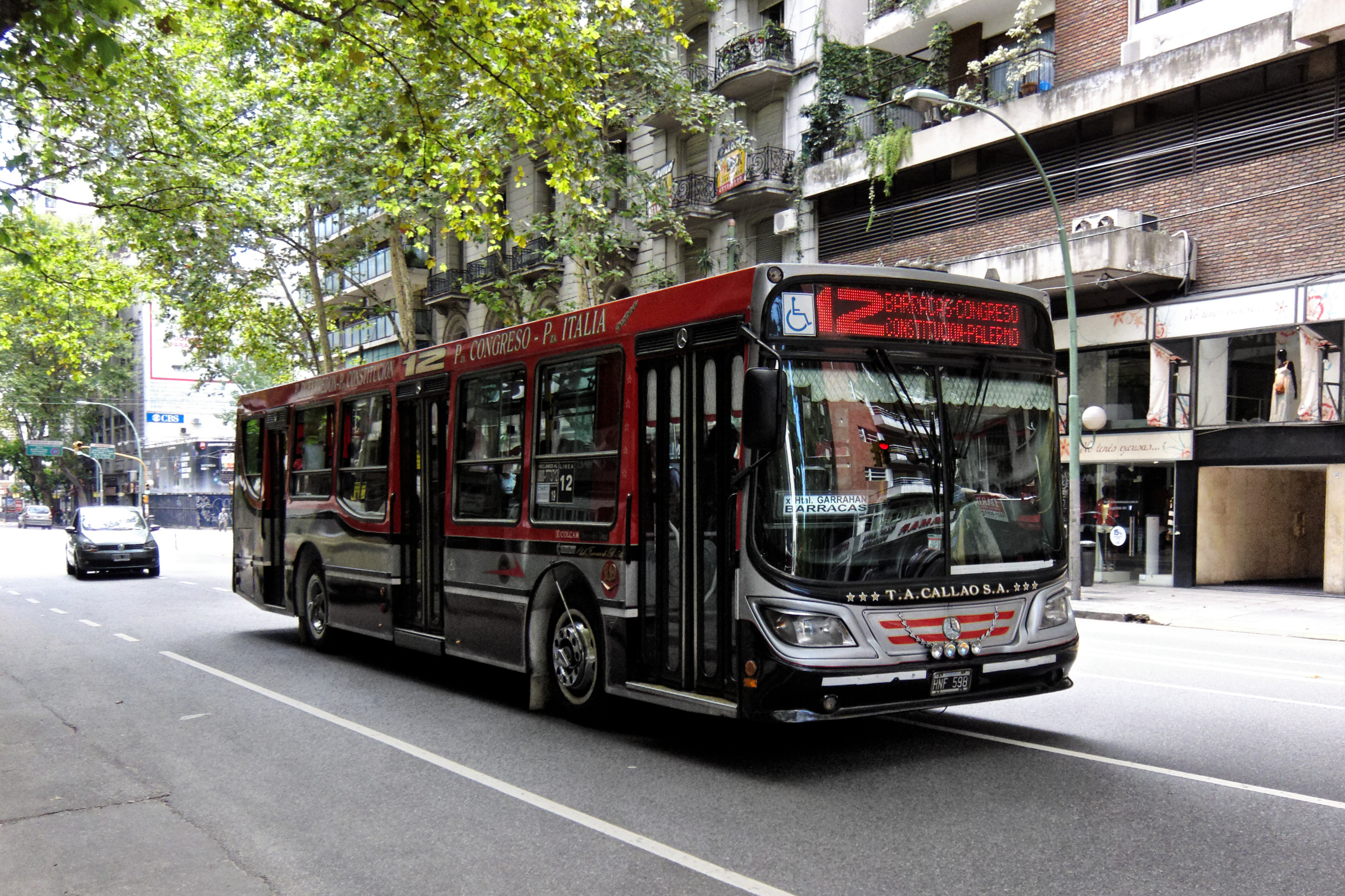 Italbus Tropea bus (reg. HNF 598, #19) with Mercedes-Benz chassis in Buenos Aires, Argentina. Colectivo, line 12, Transportes Automotores Callao S.A. operator.